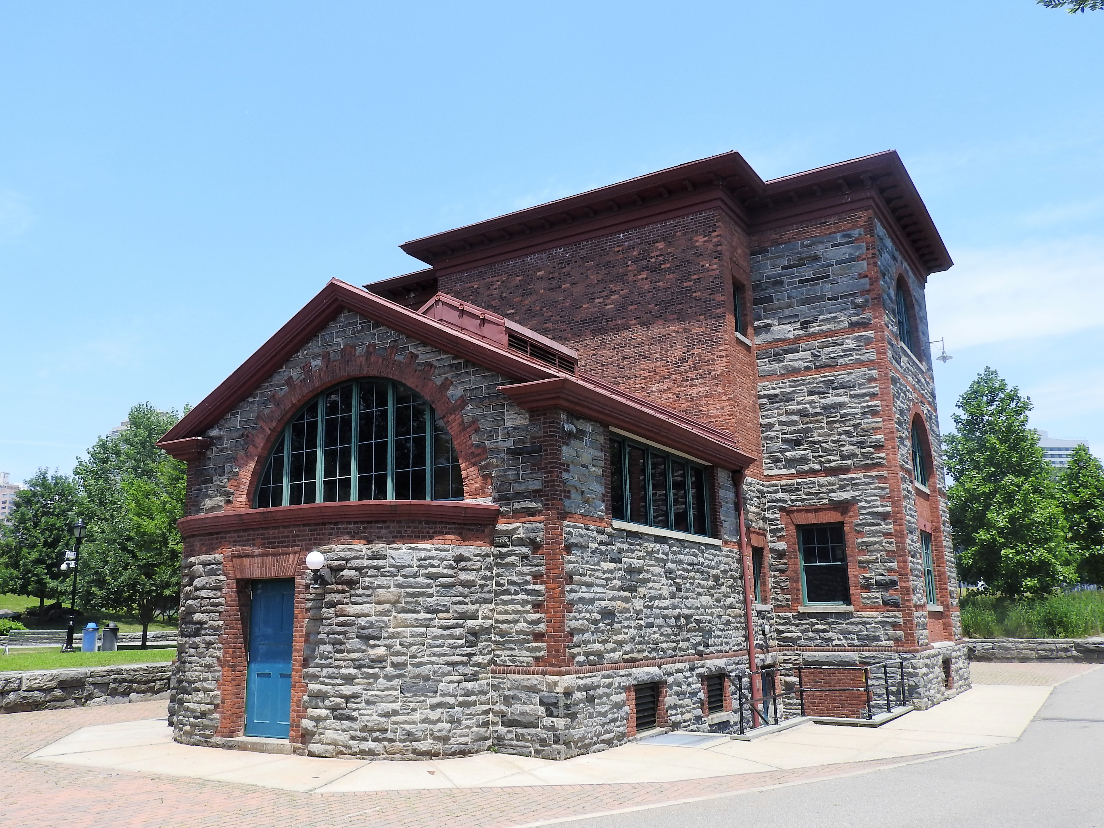 Looking north on a sunny midday